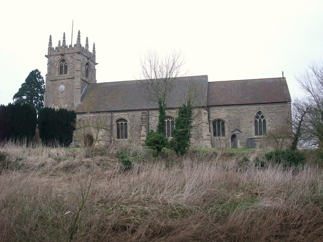 Church of St Michael, Averham Viewed from the south, looking across Rundell Dyke